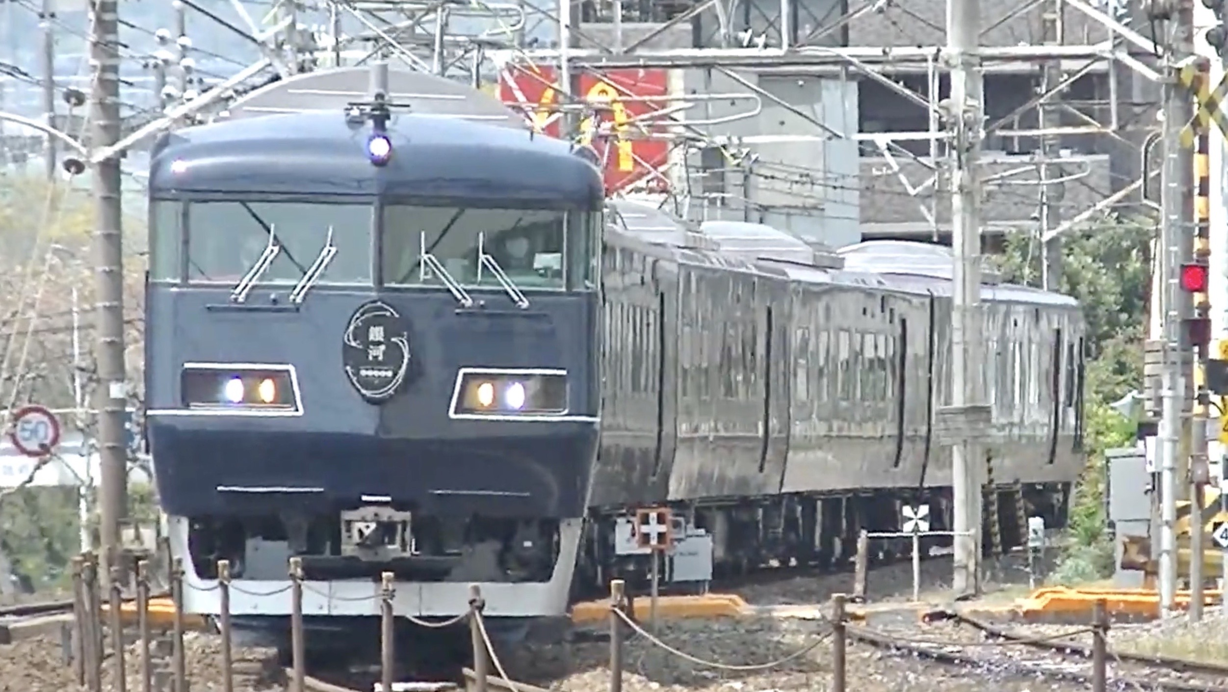 Luxury train West Express Ginga conducting staff training at Hiroshima Station, April 16, 2020.